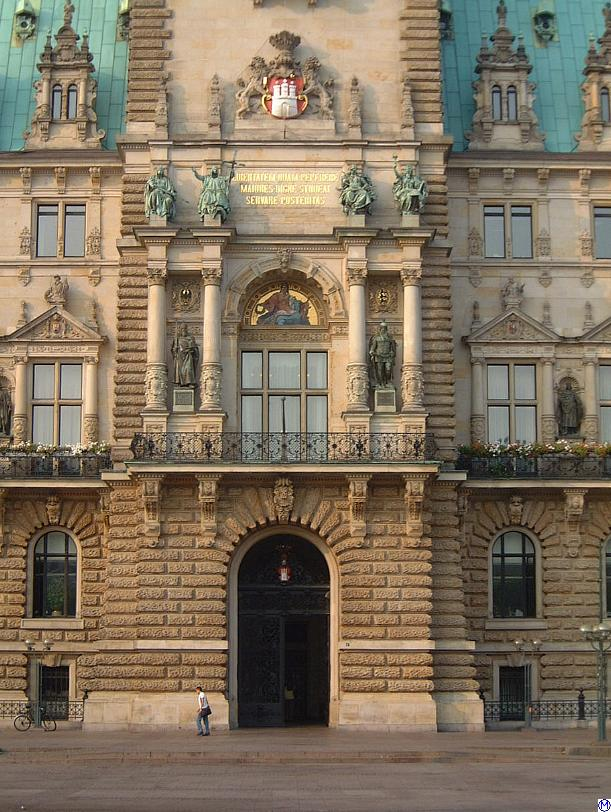 The city crest adorns the portal of Hamburg's city hall, which reflects its (the emblem's) content.Over the balcony you see the tessellated picture of the Hammonia, above a latin slogan.